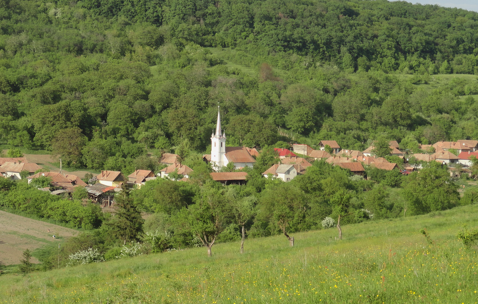 Panoramic view of Budiu Mic, Mureș county, Romania. (In hungarian: Hagymásbodon; in german: Hagendorf)